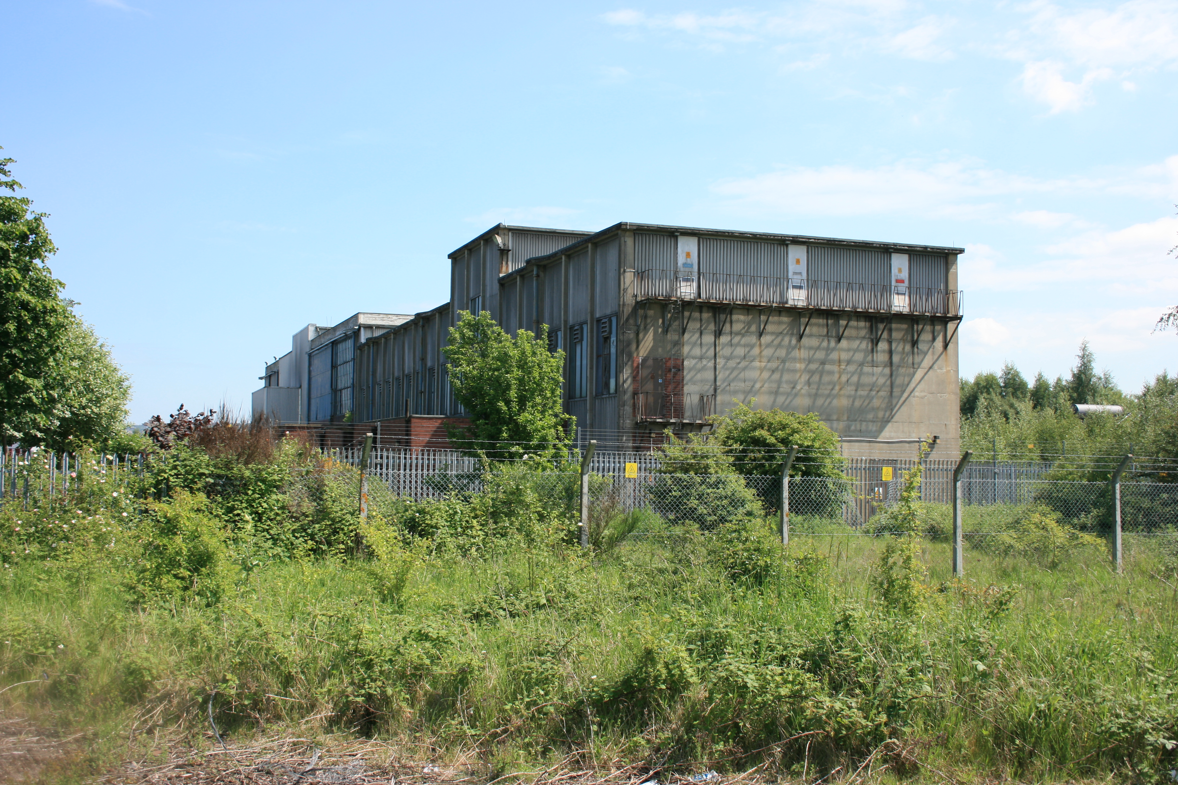 The substation on the site of Dunston Power station